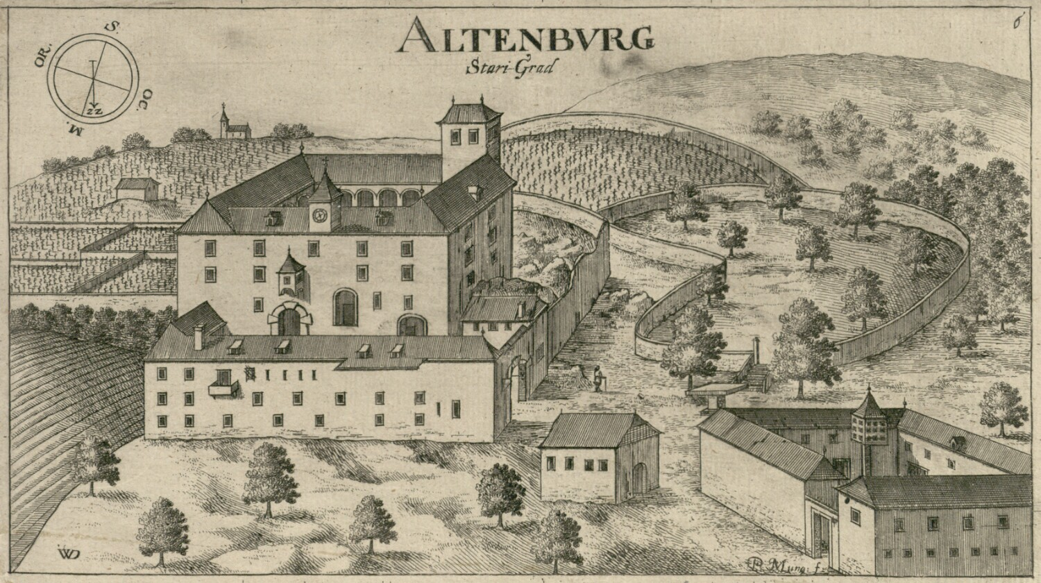 Stari grad (Altenburg)